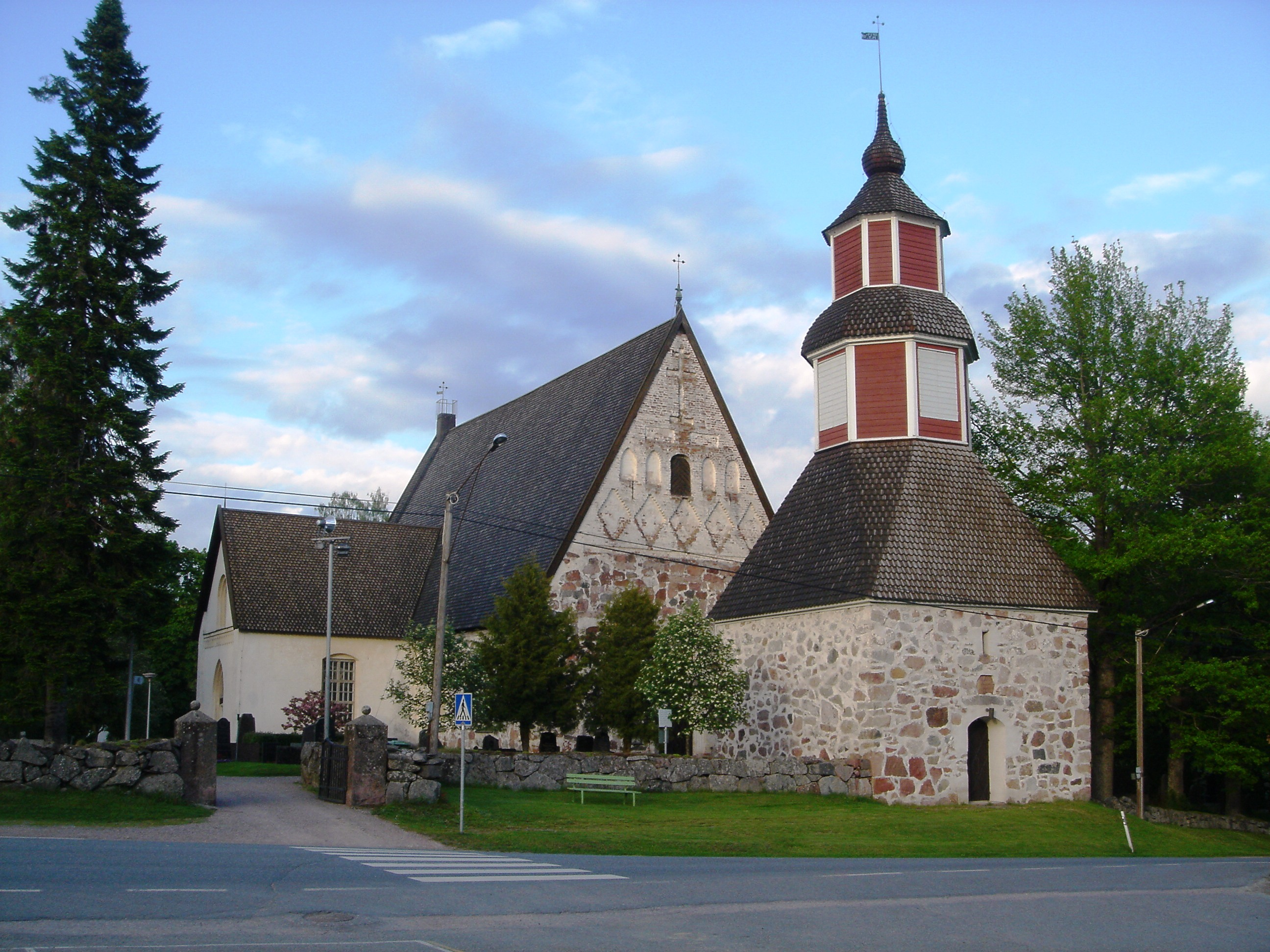 Church of Saint Lawrence in Janakkala, Finland. The oldest part of the medieval church is believed to be built in the end of the 15th century or in the beginning of the 16th century.